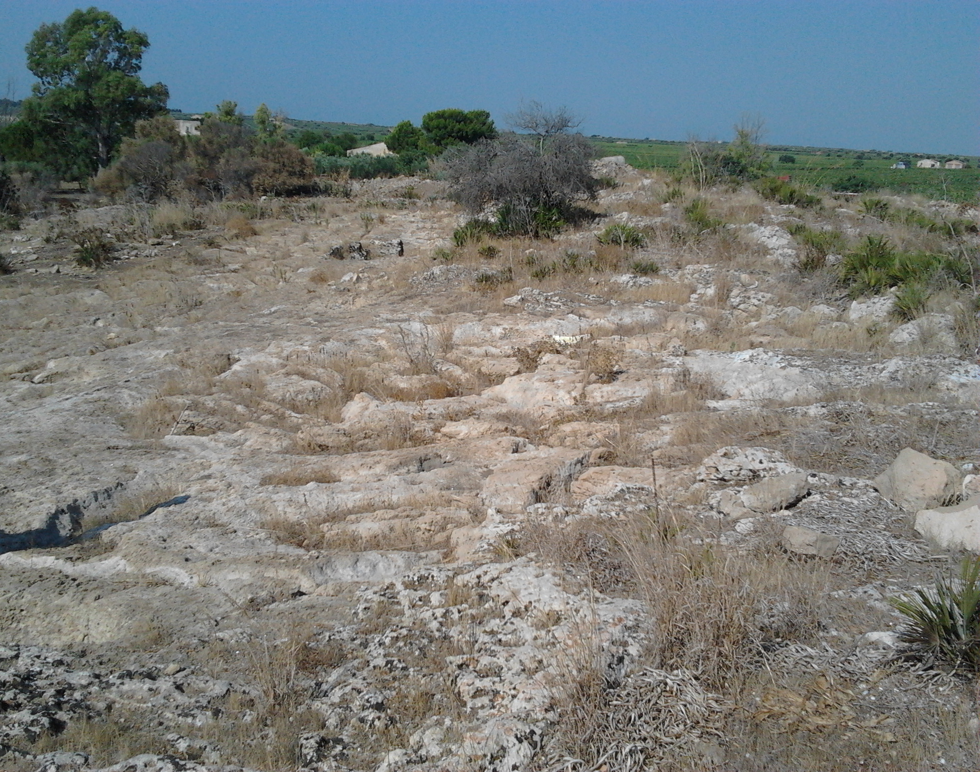 Panoramic view of the archaeological site of Roccazzo, Mazara del Vallo